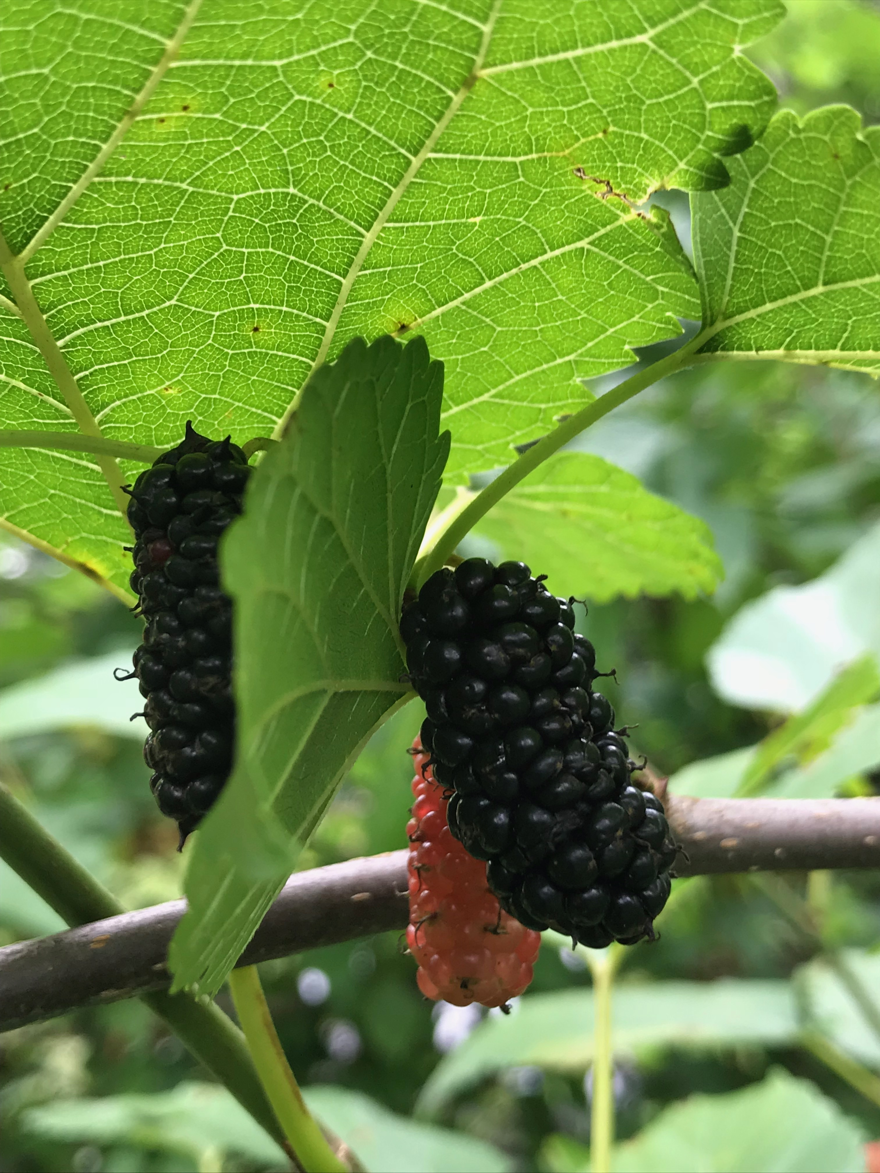 Picture taken in October, season for Mulberries in Southern Brazil, city of Ponta Grossa - PR, site: Wambier's farm.